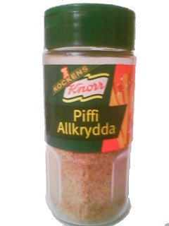 Similar to but less scary to upload with all these warnings. Taken with my cell phone cam.